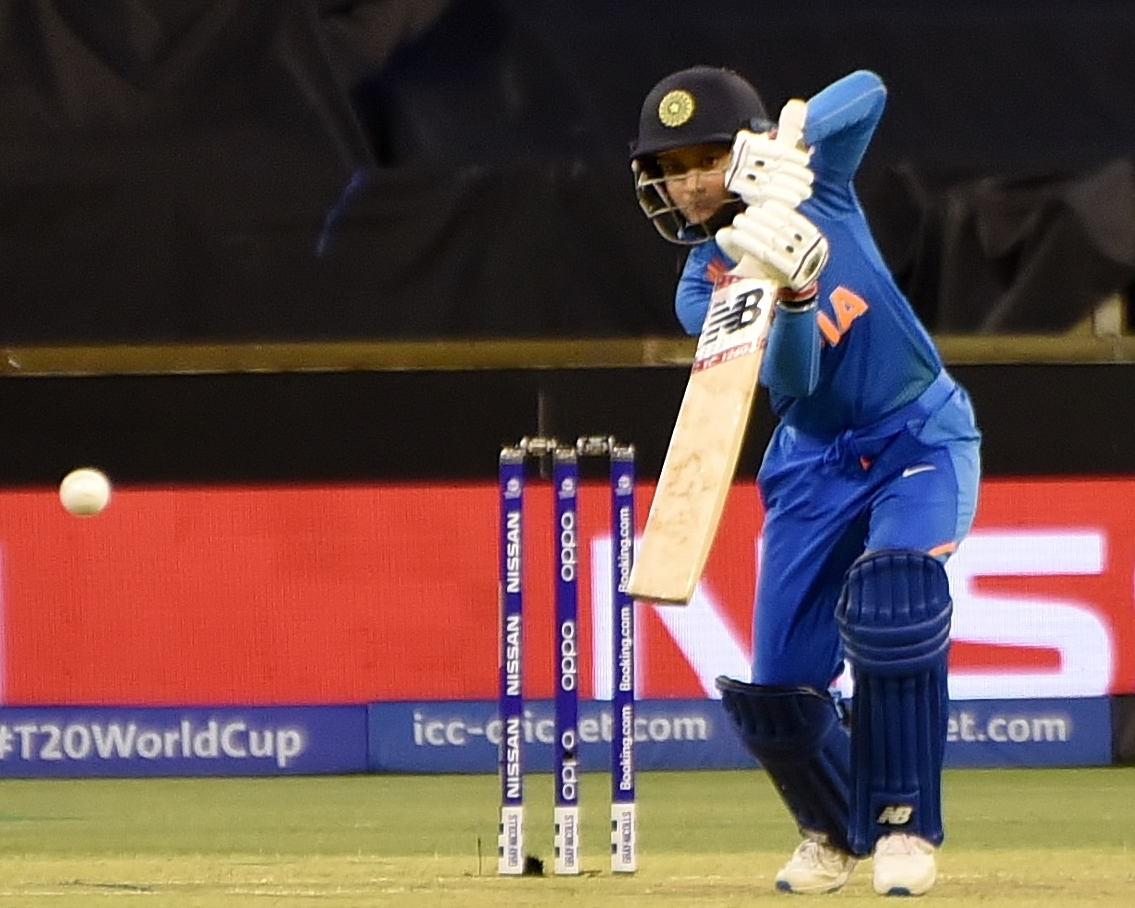 Taniya Bhatia batting for India against Bangladesh during their 2020 ICC Women's T20 World Cup match at the WACA Ground in Perth, Australia